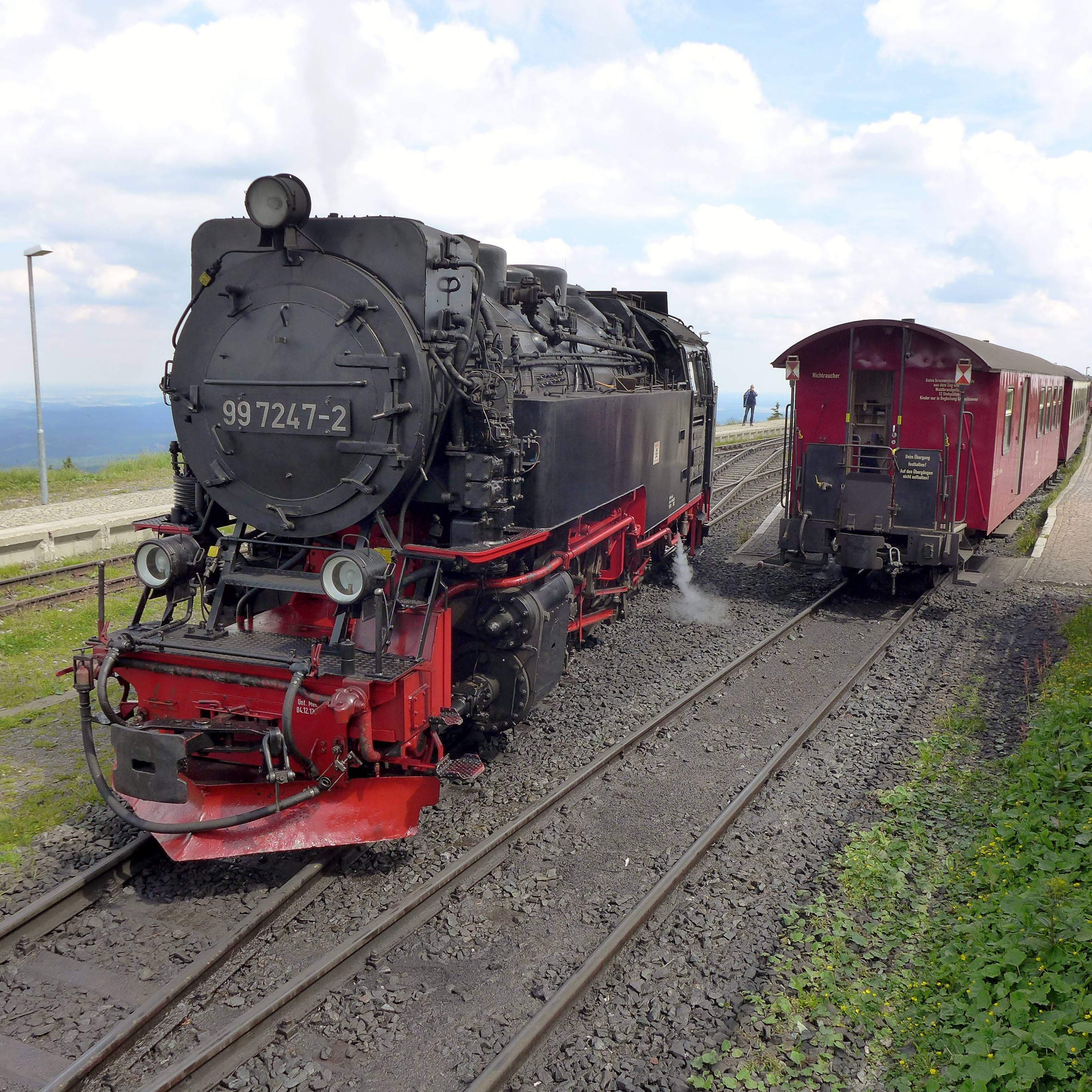 DR Class 99.23-24 tank locomotive no. 99 7247-2 following its arrival at Brocken with a Harz Narrow Gauge Railways (HSB) train from Wernigerode.